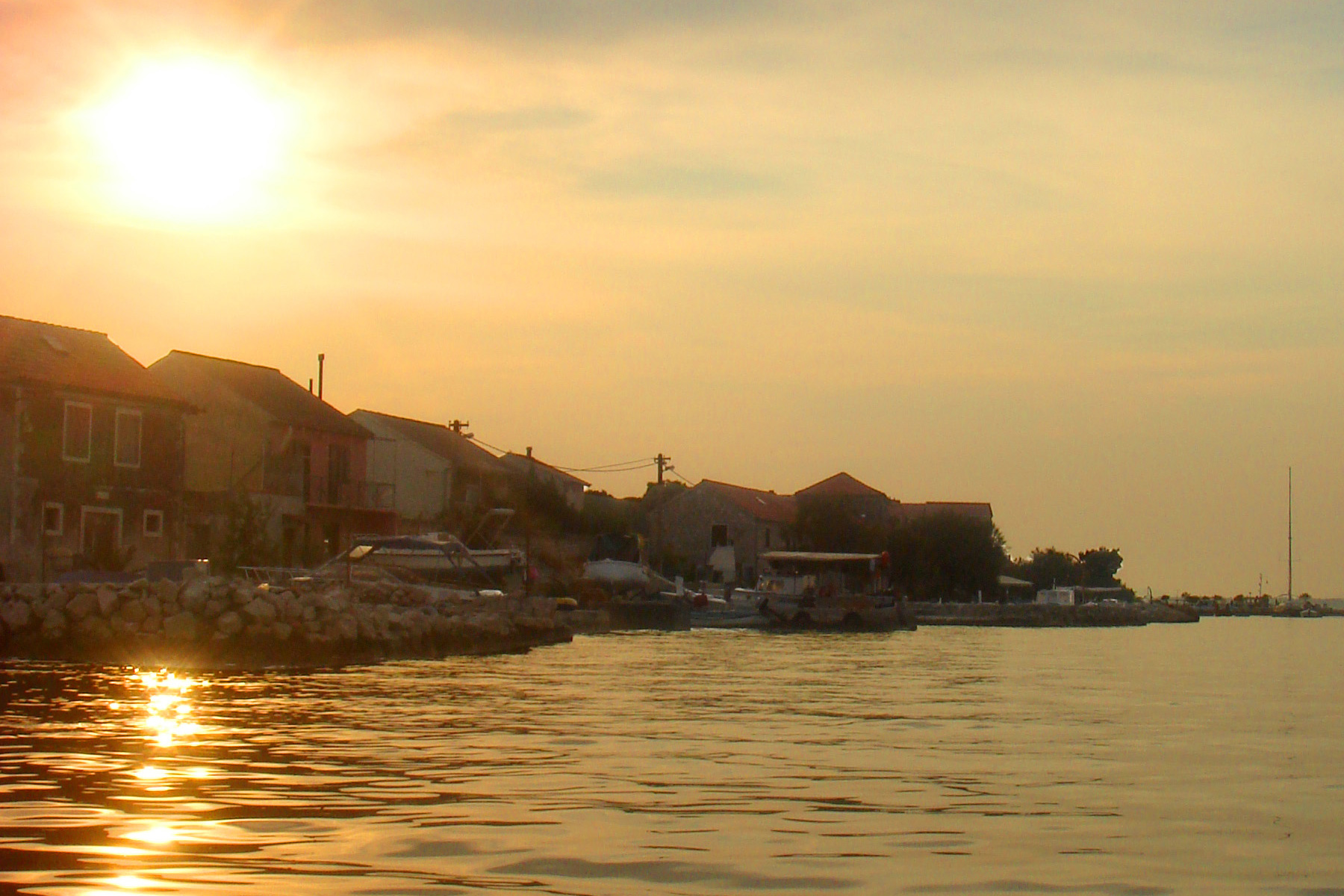 Sunset in Krapanj